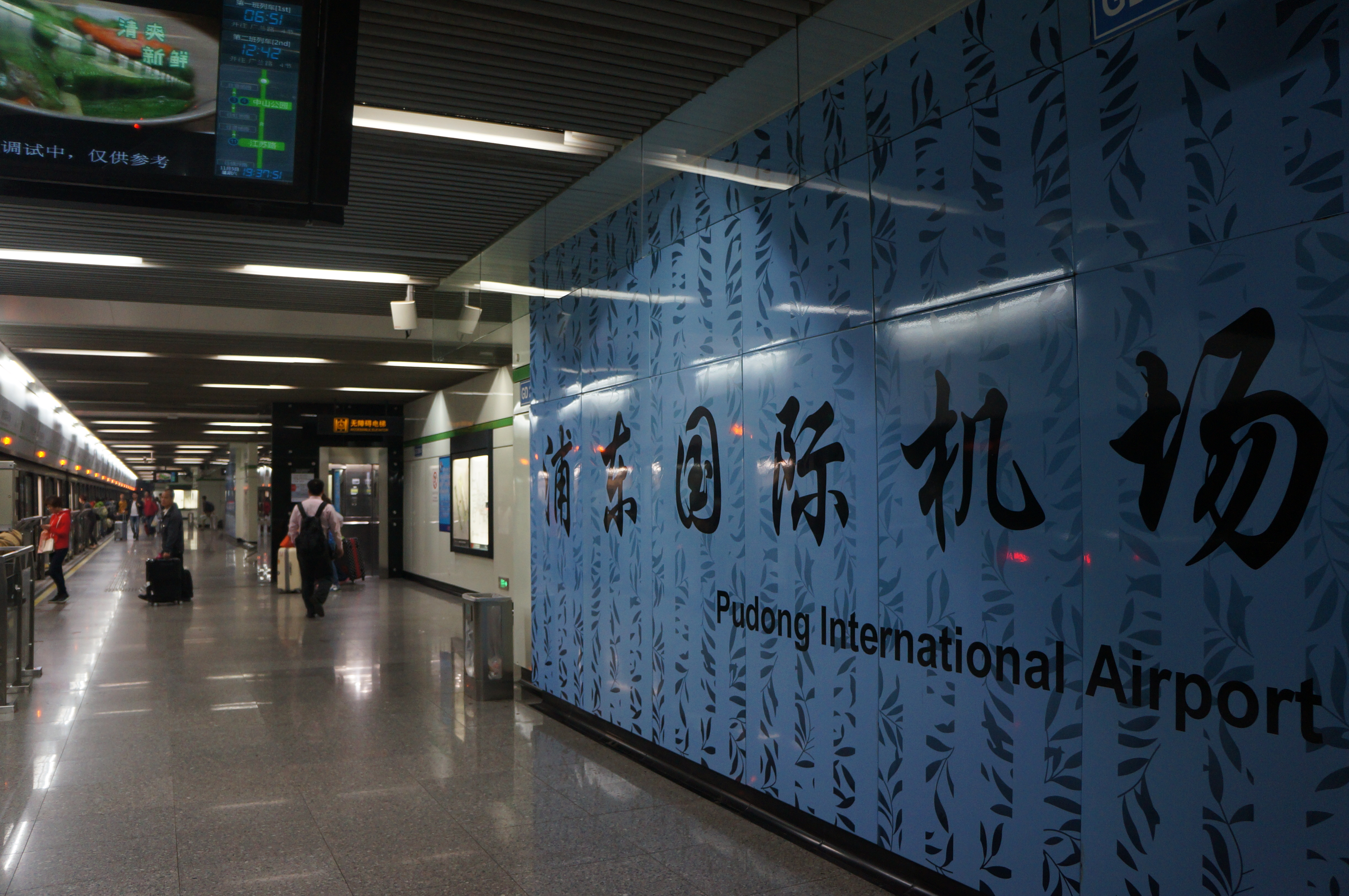 201611 Name board of Pudong Intl Airport Station